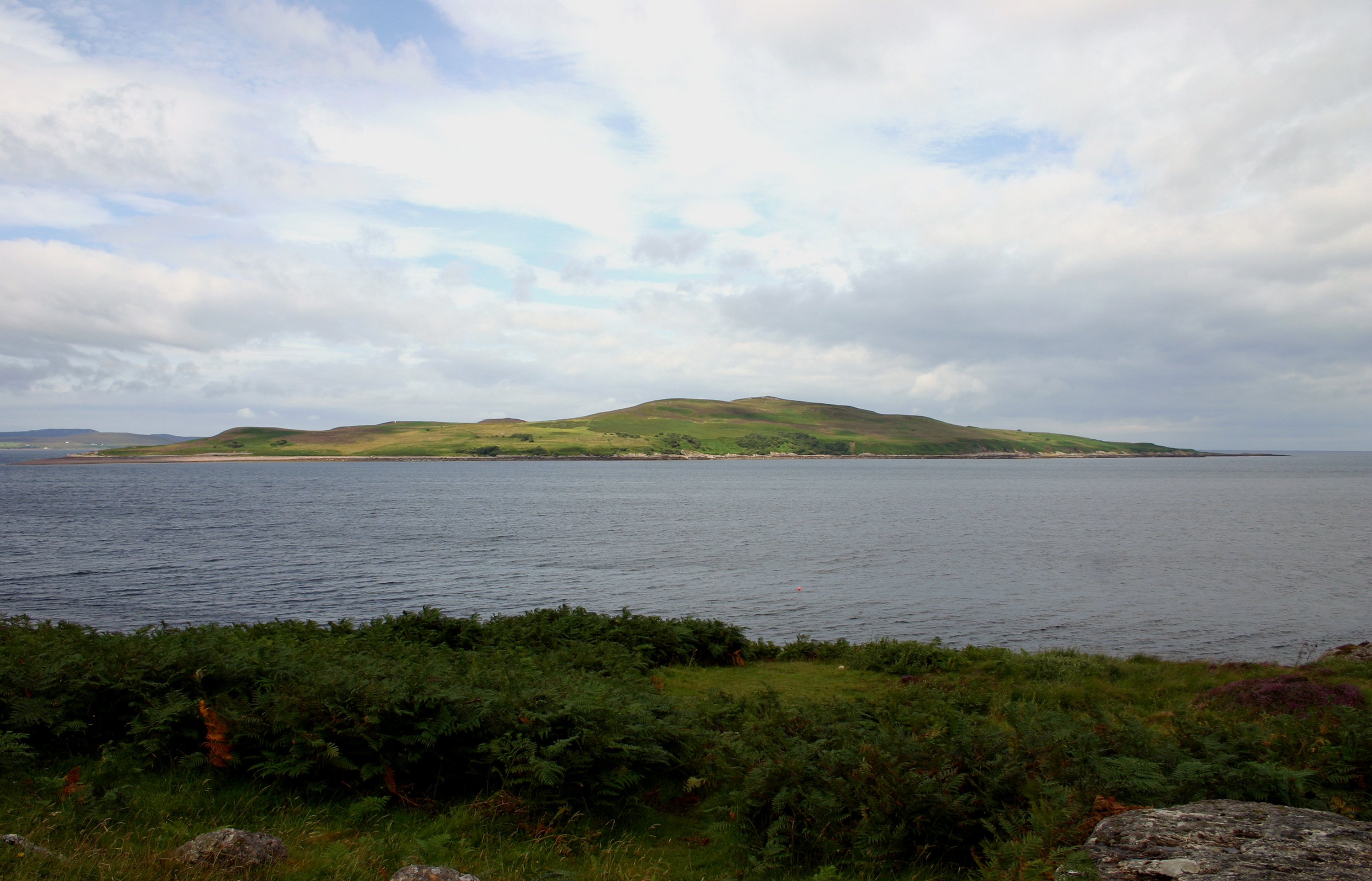 Gruinard Island, off the northwest coast of Scotland. Most famous for being the test site for Britain's biological weapons. It was contaminated with anthrax for decades.